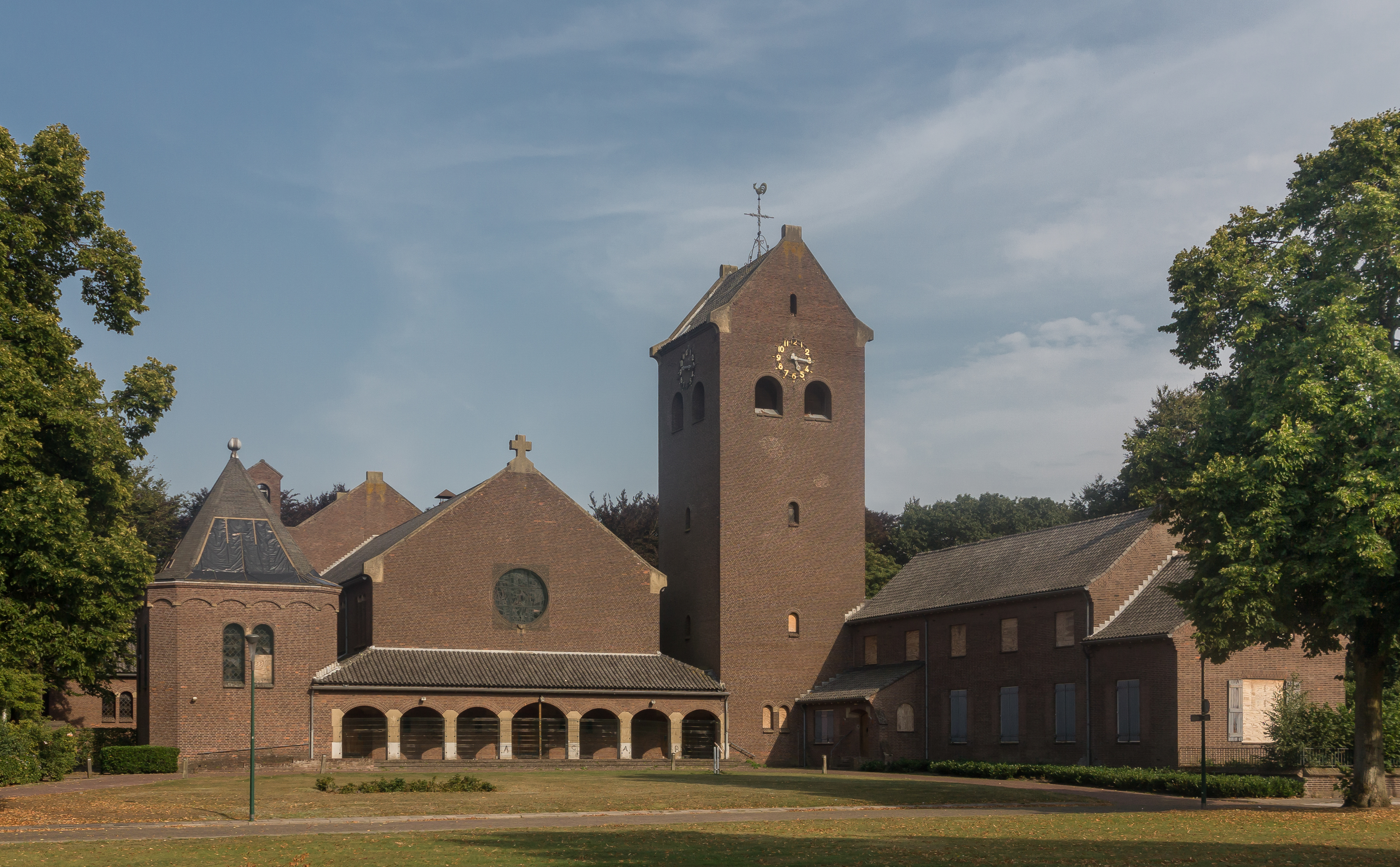 Kaatsheuvel, church: de Sint Jozefkerk